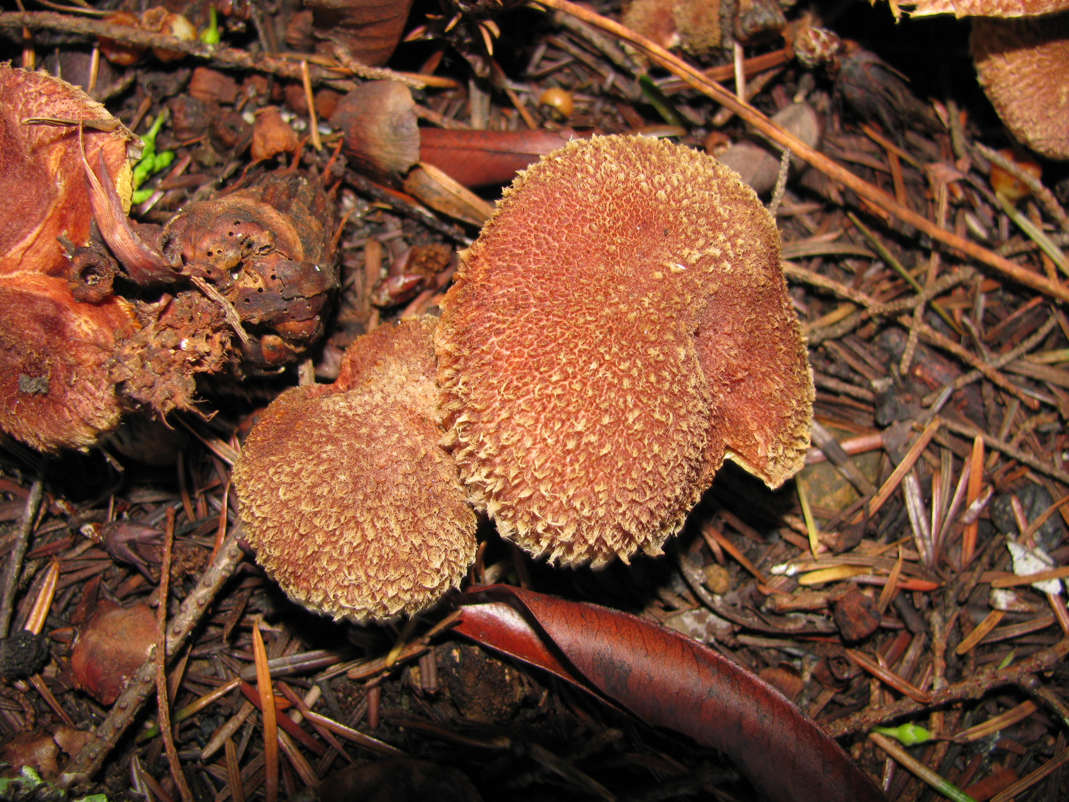 Fruit bodies of the fungus Suillus lakei var. pseudopictus. Specimen photographed in Mendocino, California, USA.